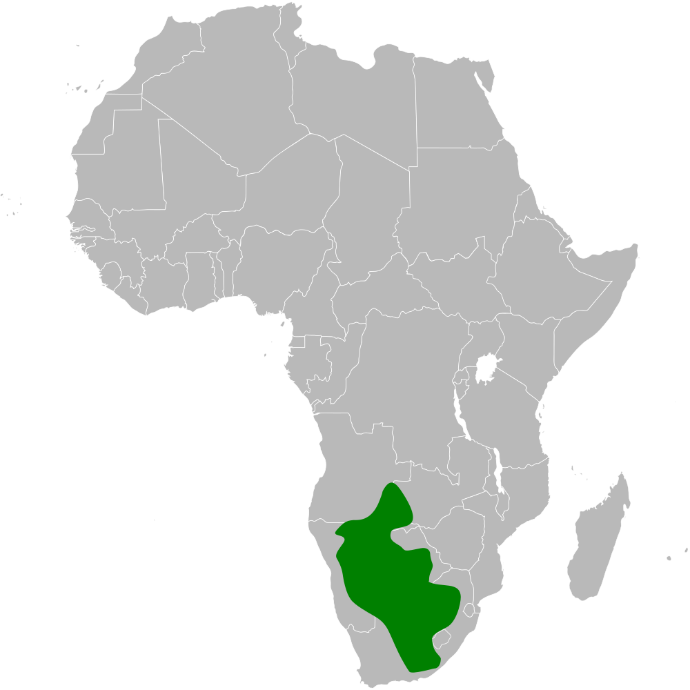 Mirafra fasciolata distribution map; using BlankMap-Africa.svg, based on